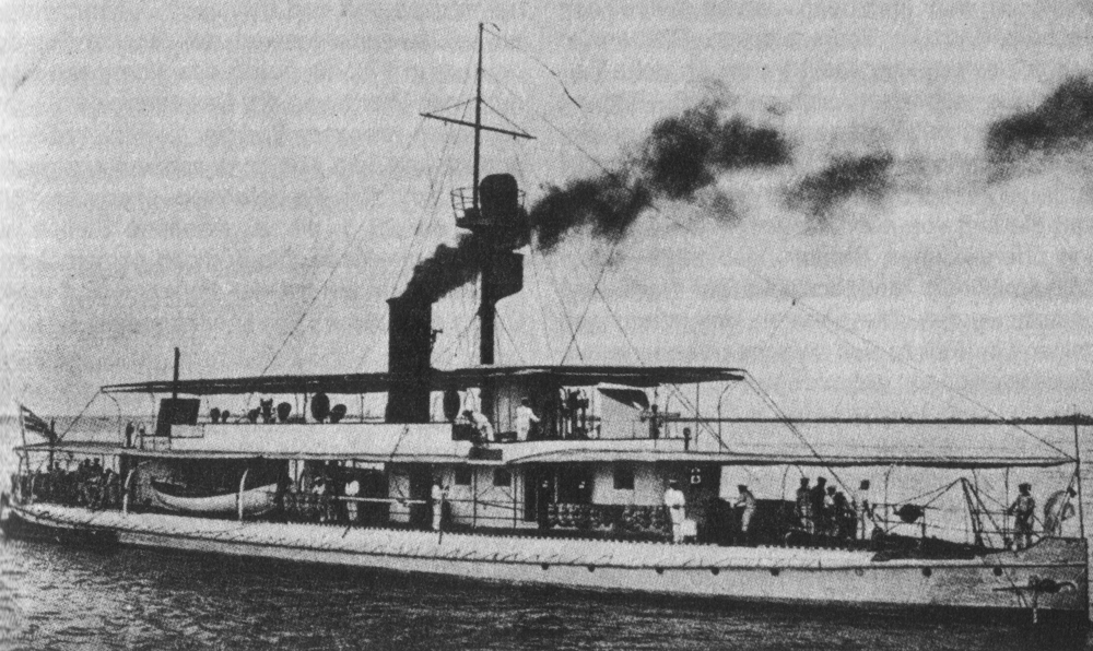 The German rivergunboat SMS Vaterland. After WW I she served in the Chinese and from 1935 in the Manchukuo Navy under the Name Li Sui.